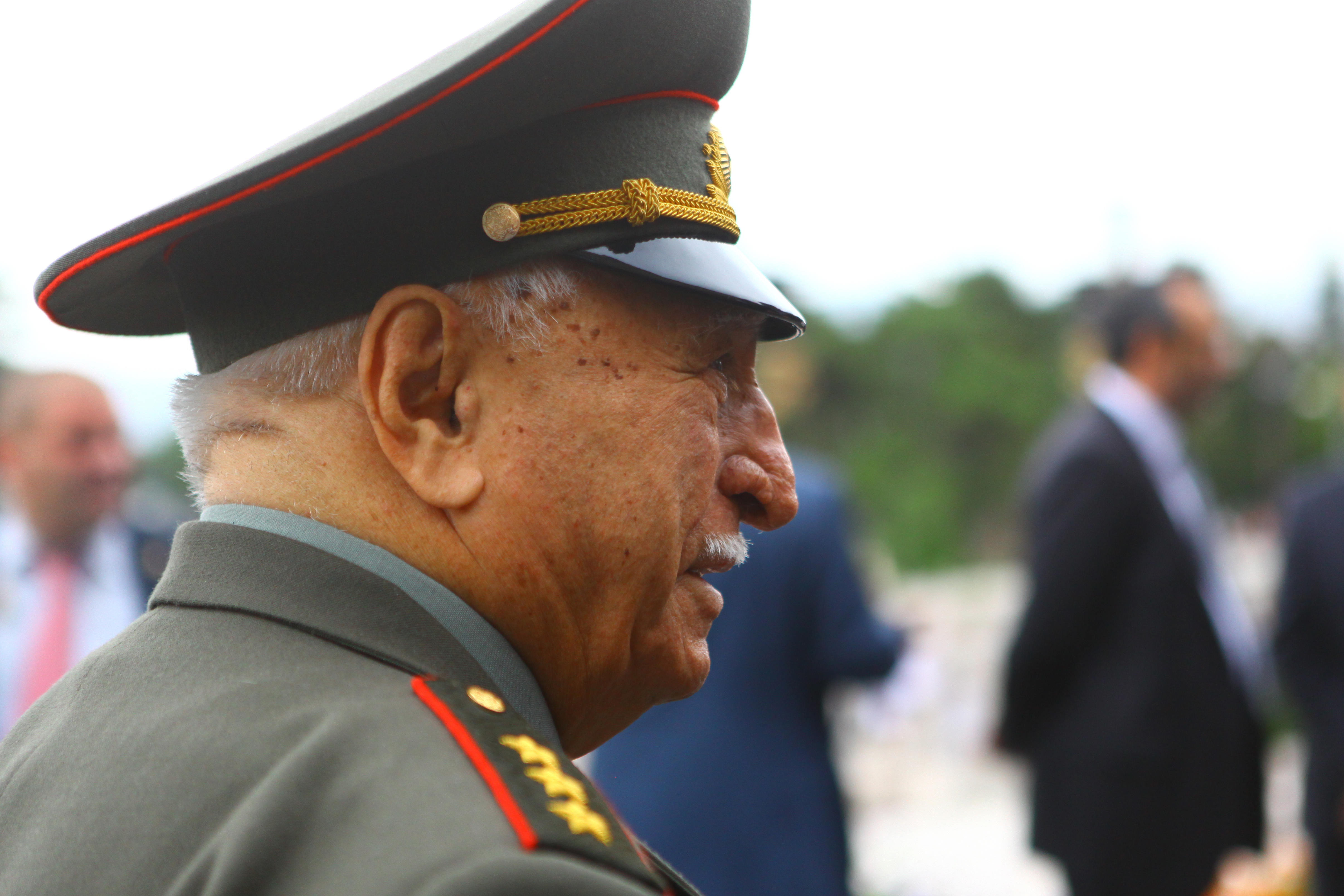 Gurgen Dalibaltayan, Colonel-General of Armenia Army